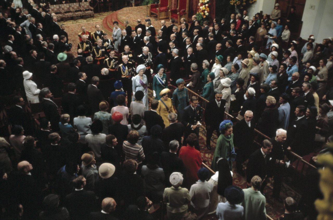 Overview of Ridderzaal at Prinsjesdag 1968